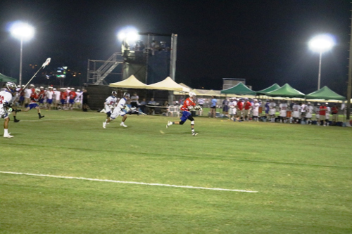 The Philippine national lacrosse team (in white) plays against the Czech Republic (red) at the 2018 World Lacrosse Championship in Israel.